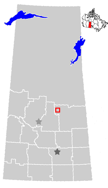 Location of Melfort, Saskatchewan